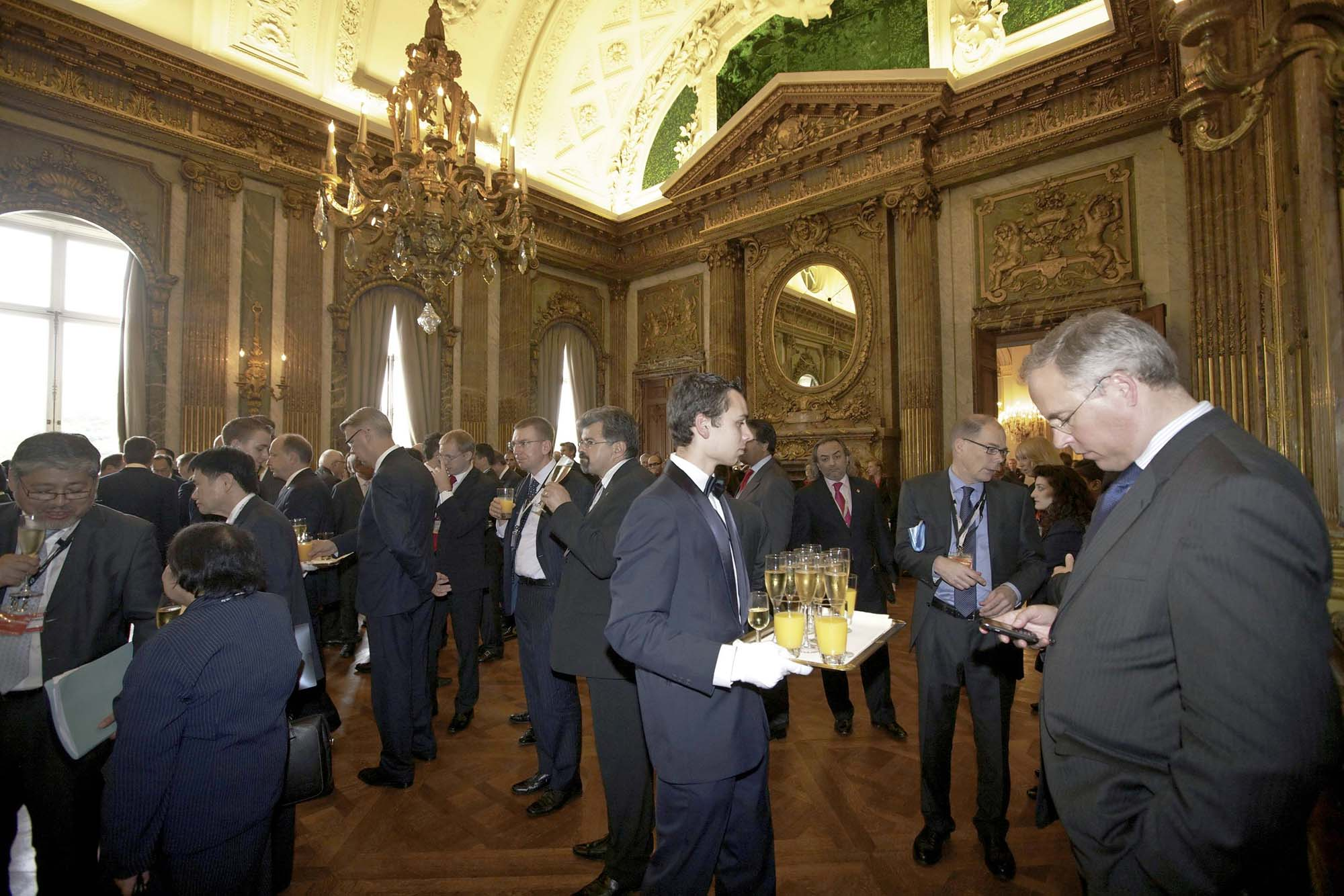 20101005 - BRUSSELS, BELGIUM : Illustration picture shows the participants of the ASEM 8 pictured during a royal reception on the second day of the eighth Asia-Europe Meeting (ASEM 8), Tuesday 05 October 2010, at the Royal Palace in Brussels. *** Local Caption *** นายกรัฐมนตรีเข้าร่วมการประชุมผู้นำเอเซีย-ยุโรป ครั้งที่8 (ASEM8) ณ กรุงบรัสเซลส์ ประเทศเบลเยียม วันที่4 -5 ตุลาคม พ.ศ.2553 (ภาพจาก